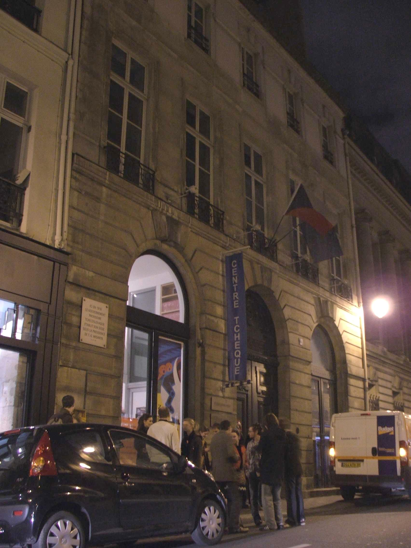 Czech (cultural) Centre in Paris.